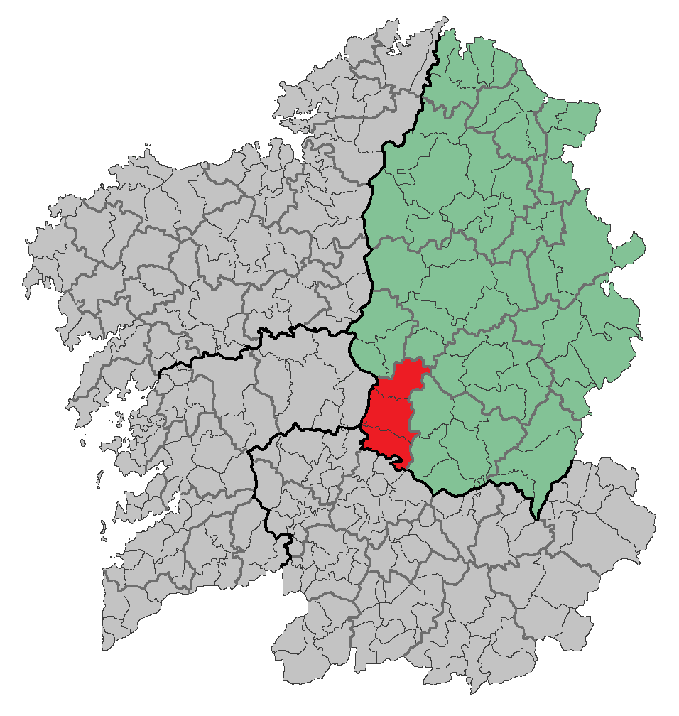 Region of Galicia (Spain)Based in: Image:Location of Betanzos.png Source: Designed by Leoplus. Original picture, designed by Caiser over a work made by Alyssalover.